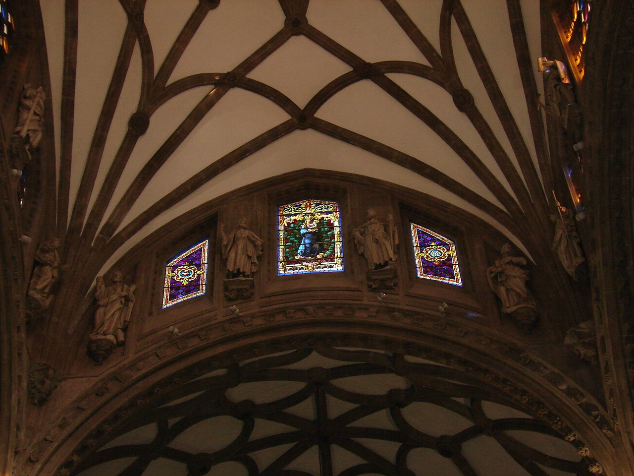 Inside